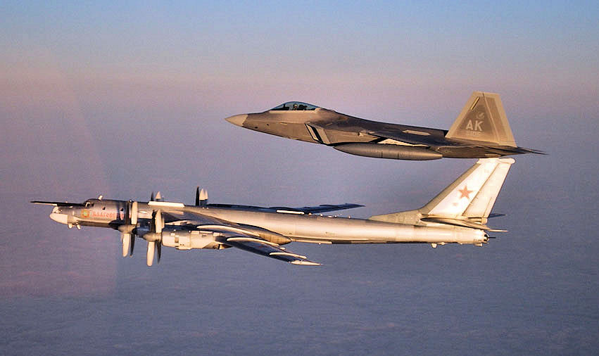 A 3rd Wing F-22 Raptor escorts a Russian Air Force Tu-95 Bear bomber near Nunivak Island, 2007. It was the first intercept of a Bear bomber for an F-22 which was alerted out of Joint Base Elmendorf-Richardson’s Combat Alert Center. (Courtesy photo)